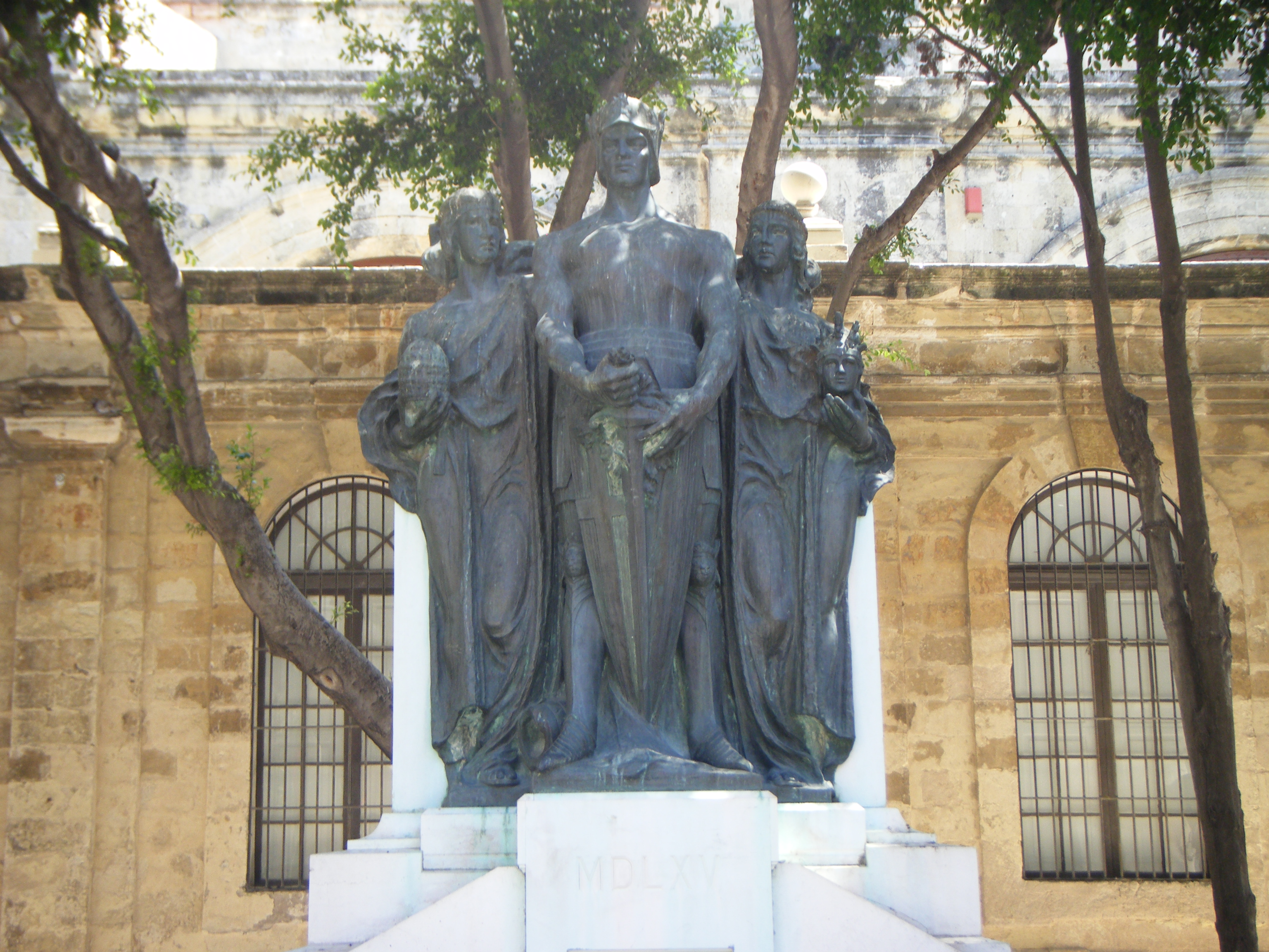 Great Siege Memorial, in by